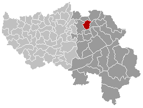 Map, municipality belgium Thimister-Clermont